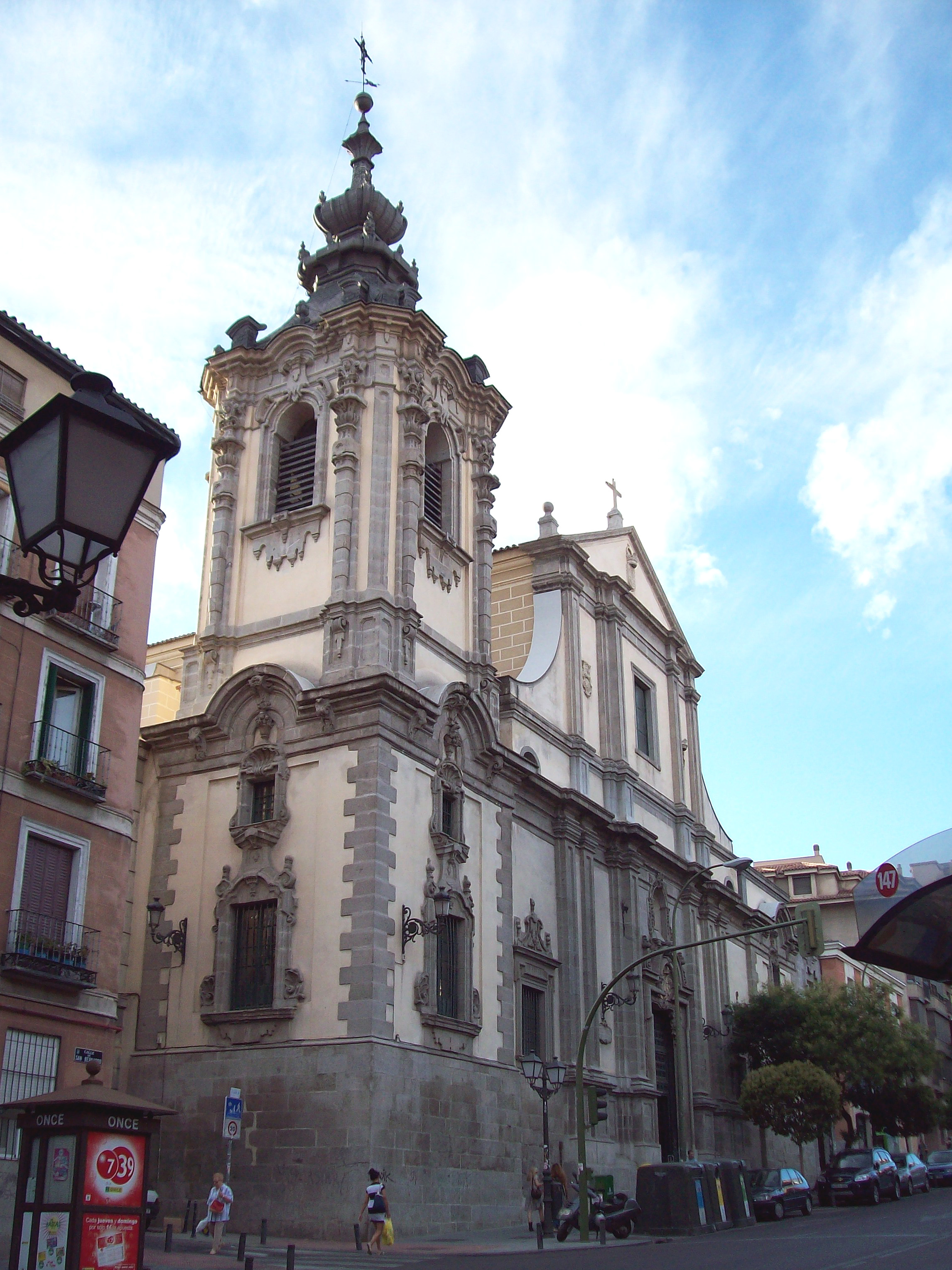 Iglesia de Nuestra Señora de Montserrat ("Church of Our Lady of Montserrat") in Madrid (Spain), at Calle de San Bernardo (street). Building was projected in 1668 by Sebastián de Herrera Barnuevo and built between 1668 and 1733. Façade and tower were projected by Pedro de Ribera in 1716.